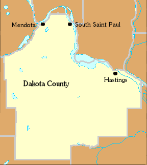 Locator Map of Dakota County, Minnesota, United States Category:Minnesota maps and